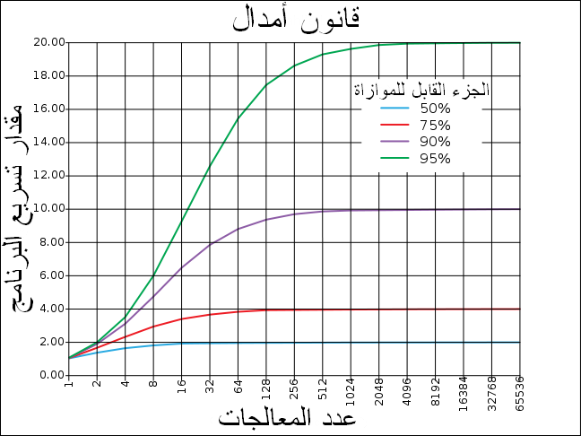 SVG Graph Illustrating Amdahl's Law